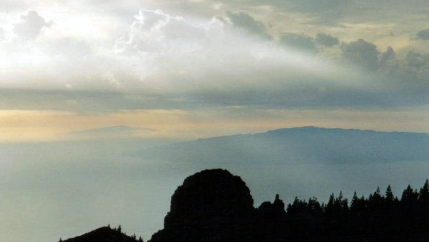 Gomera (front) seen from Tenerife. Hierro can be seen in the left background.